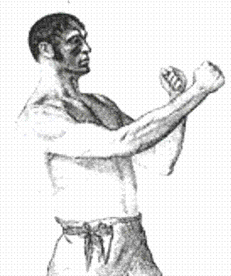 Print circa 1824 of the boxer Tom Spring. This image has been modified and edited by the uploader from the book cover of Tom Spring, Bare-Knuckle Champion of All England by Jon Hurley. ISBN: 0752424041. Original work is public domain by virtue of age